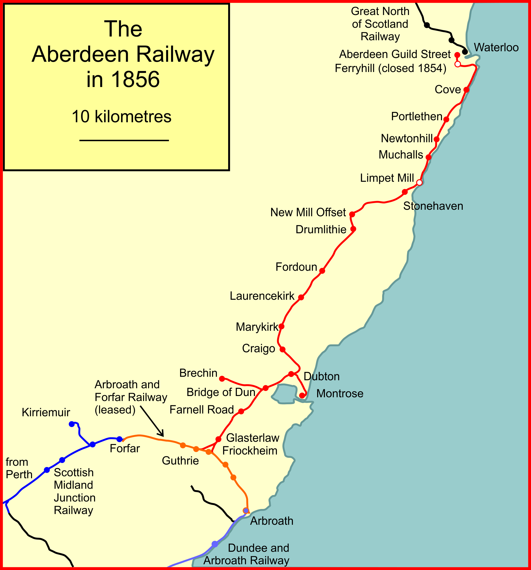 System map of the Aberdeen Railway, Scotland, in 1856